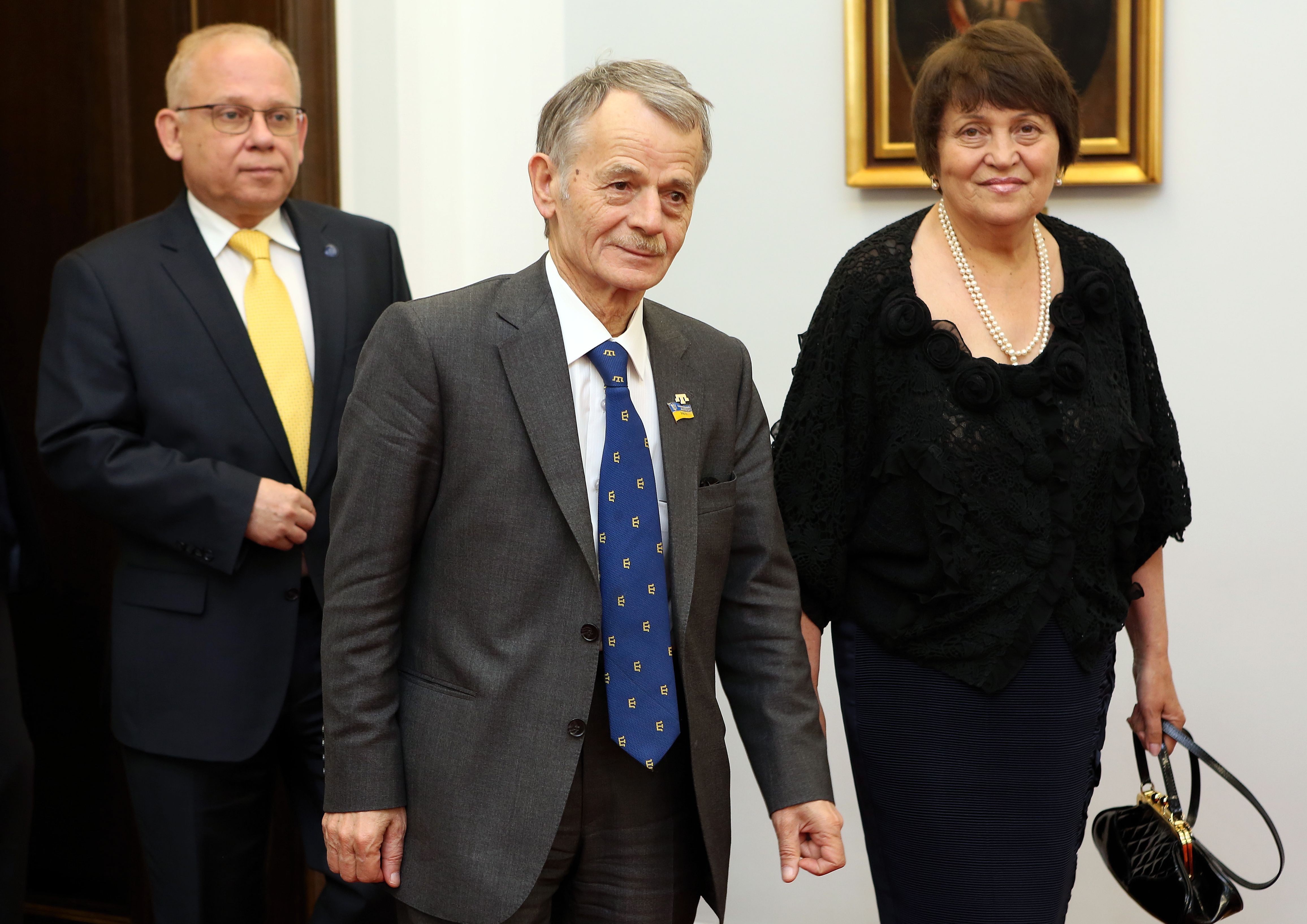 Mustafa Dzhemilev in the Polish Senate